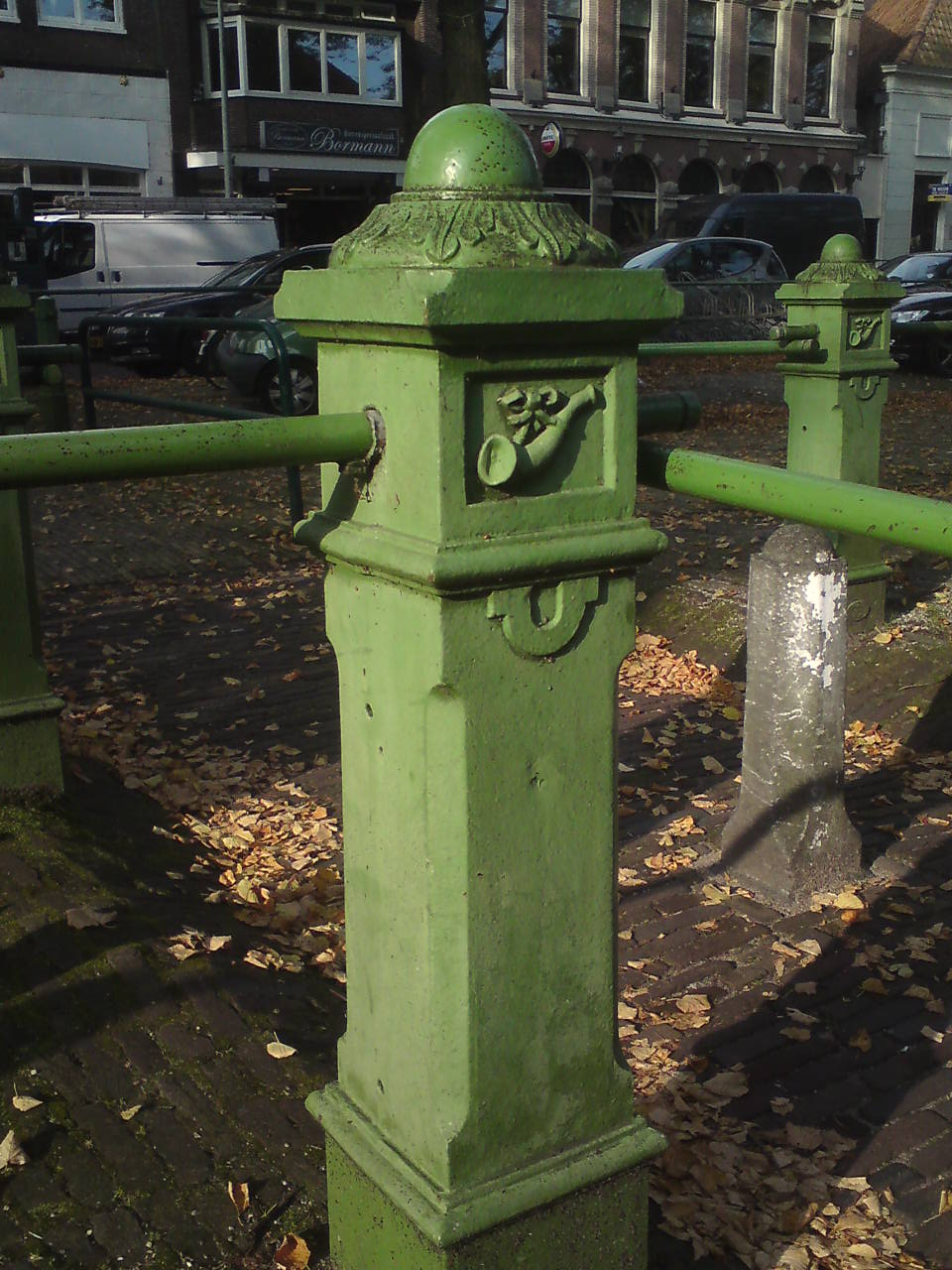 Boundary at the Veemarkt in Hoorn, the Netherlands